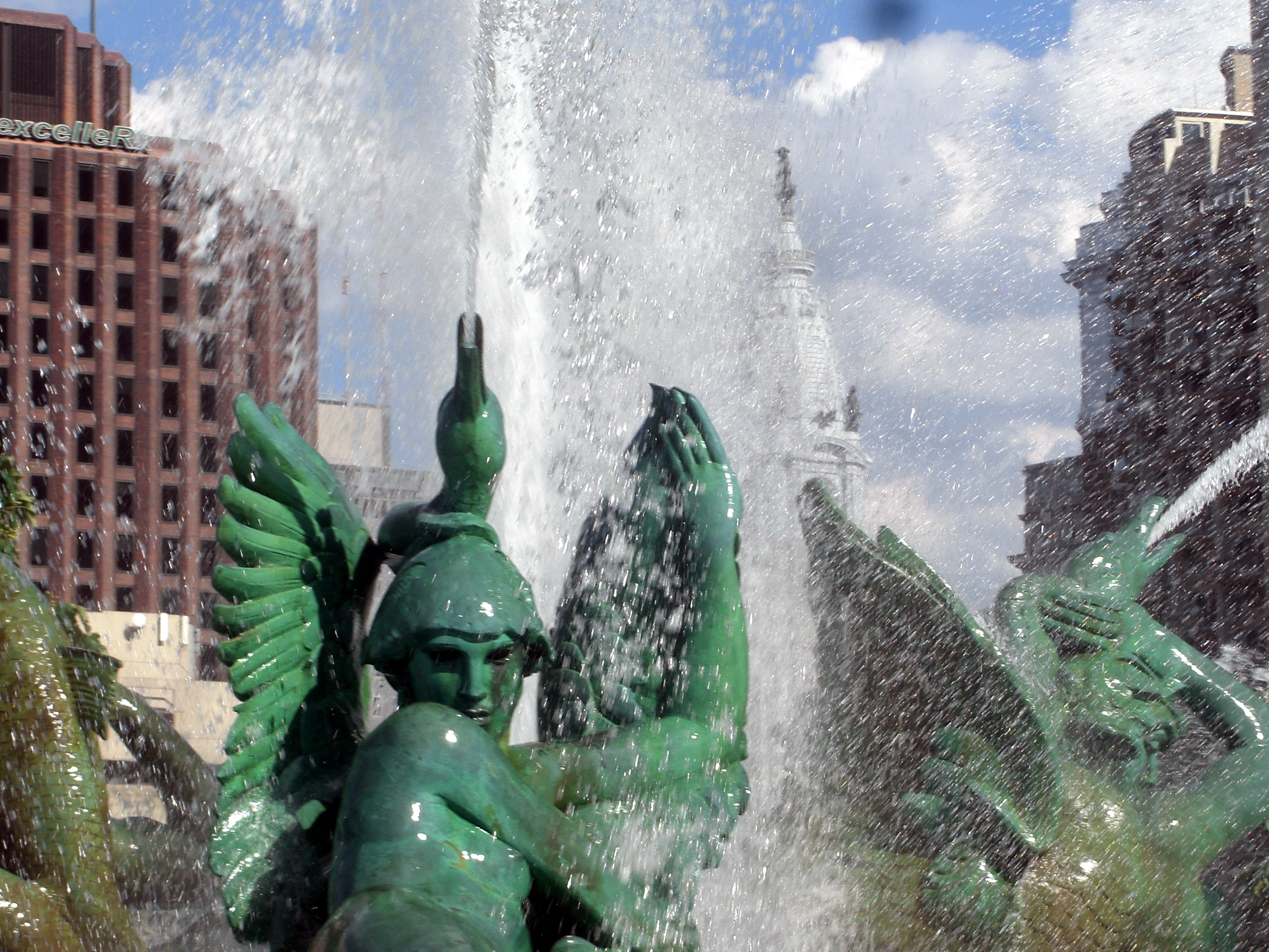 Swann Memorial Fountain, (sculpture). The Logan Circle in Philadelphia